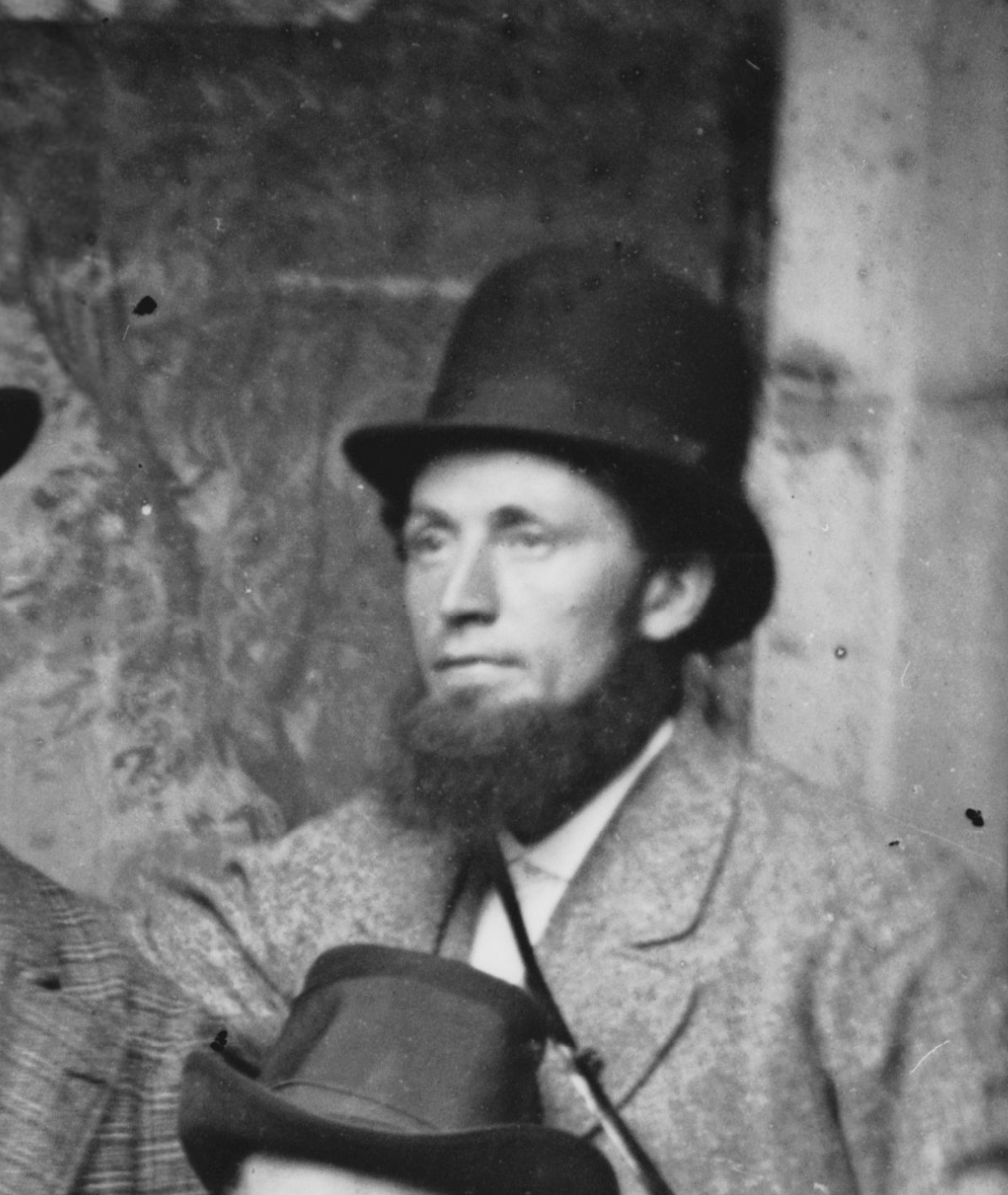 John Thomas, from a portrait of a group of walkers about to embark on a climb of Snowdon, from Thomas' own collection. . 1 negative : glass, b&w.